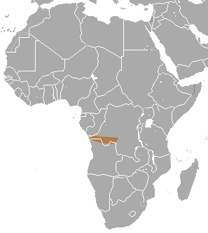 Hayman's Dwarf Epauletted Fruit Bat (Micropteropus intermedius) range